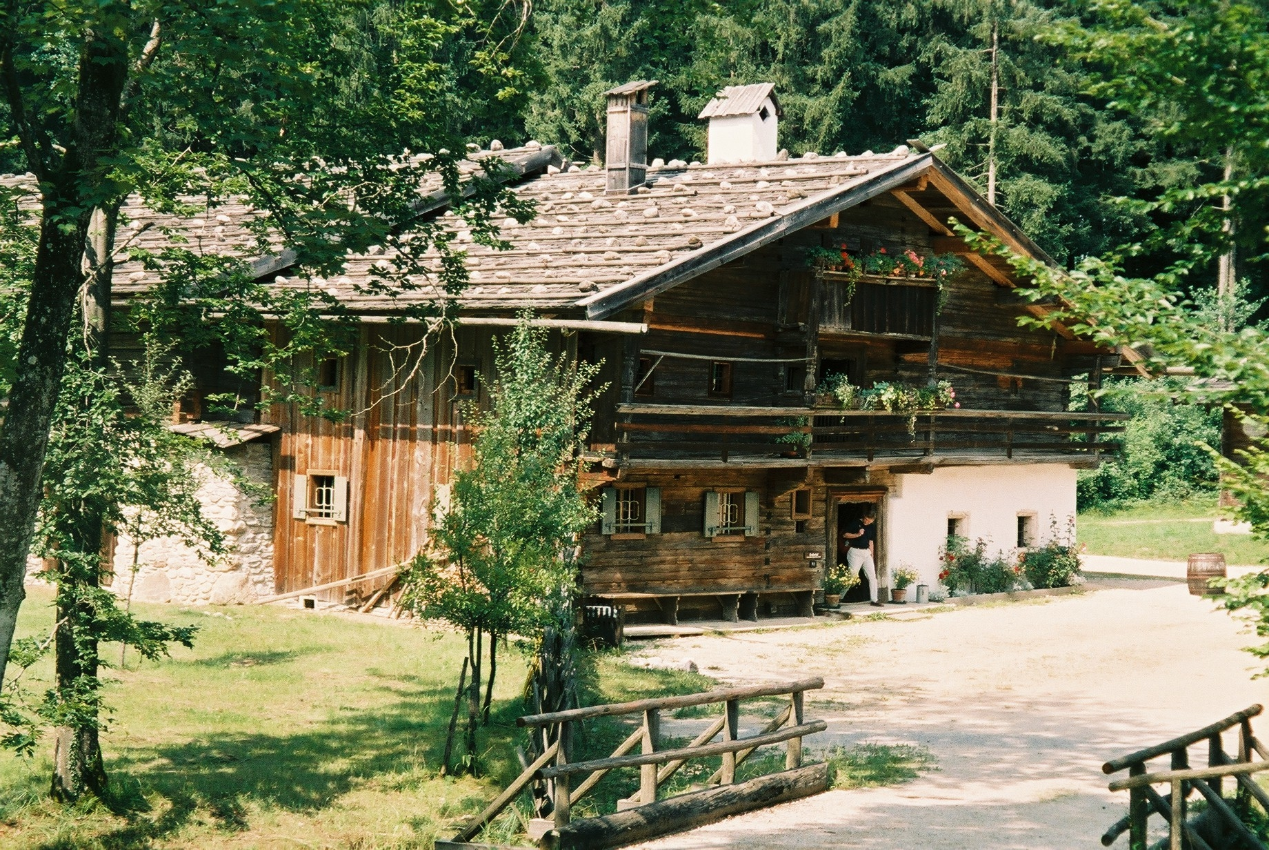 An old farmhouse at the Salzburger Freilichtmuseum in Großgmain near Salzburg, Austria. Within an area of 500,000m2, 60 buildings (farmhouses, barns, mills, etc.) from five centuries have been re-erected. Photo by KF, July 2004. External link